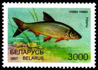 Stamp of Belarus